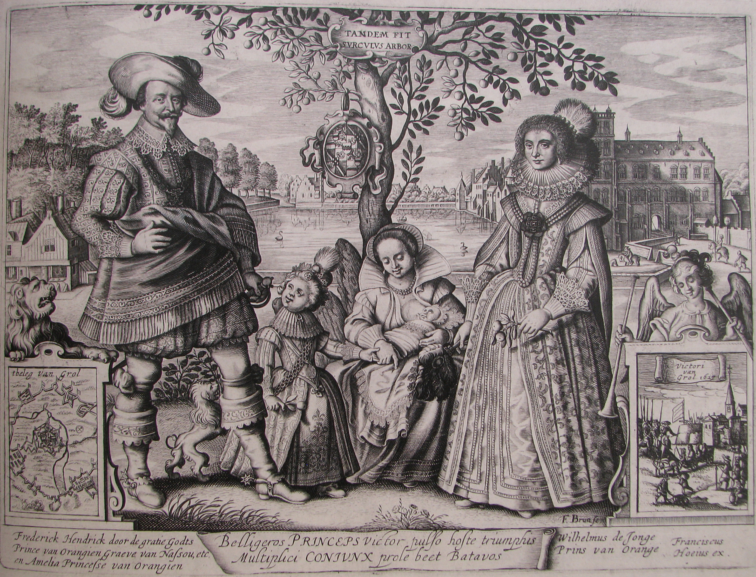 Illustration made in honour of Frederick Henry, after the victory over Grol in 1627.